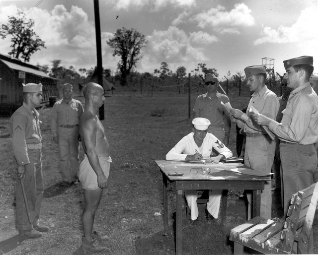 A Japanese soldier and war criminal is sentenced to death. US Navy War Crime Trials Guam 81946-48)